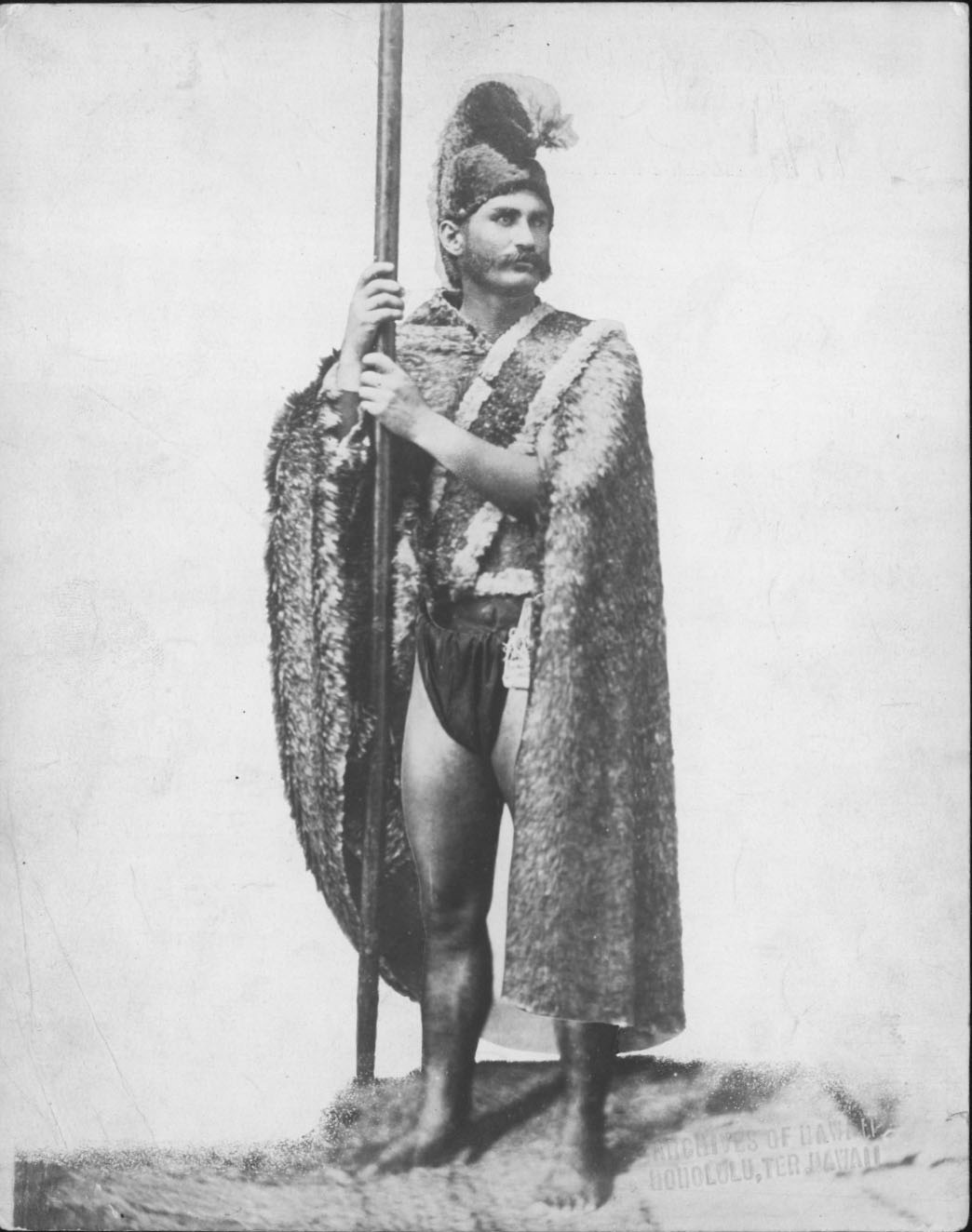 Portrait of John Baker Modeling as Kamehameha in Royal Feather Robe, Helmet, and Breechcloth and Holding Lance, unknown date. He and his brother Robert Hoapili served as models for the Kamehameha Statue by Thomas Ridgeway Gould. This is believed by Jacob Adler to be a composite image with the legs belonging to a Hawaiian fisherman, although Jean Charlot claimed the legs belong to Robert Hoapili Baker. According to the contemporary writings of Walter M. Gibson, "[t]he artist has copied closely the fine physique of [Robert] Hoapili [Baker]...and it presents a noble illustration and a correct type of superior Hawaiian manhood". References: Adler, Jacob (1969). "Kamehameha Statue". The Hawaiian Journal of History 3: 203–212. Honolulu: Hawaiian Historical Society. Charlot, Jean (July 1969) Letter To Jacob Adler On The Statue Of Kamehameha By Thomas R. Gould, Jean Charlot Foundation Dekneef, Matthew (June 10, 2016). "Two Hawaiian Brothers Who Modeled For The Iconic Kamehameha Statue". Hawaiʻi Magazine. Retrieved on November 15, 2016. Rose, Roger G. (1988). "Woodcarver F. N. Otremba and the Kamehameha Statue". The Hawaiian Journal of History 22: 131–146. Honolulu: Hawaiian Historical Society.